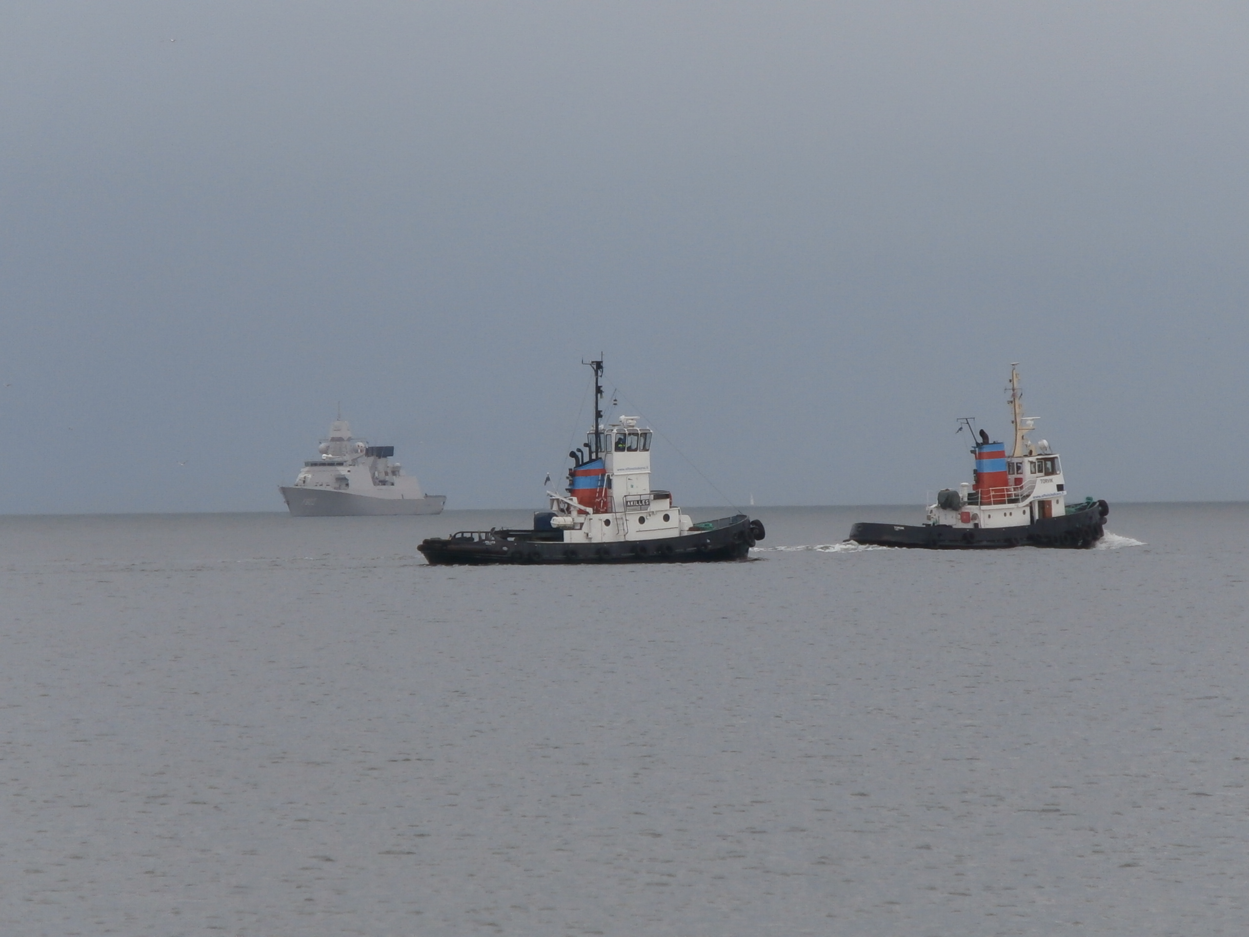 Akilles and Torvik in Tallinn Bay Tallinn 29 May 2015 (F803 Tromp in the background)